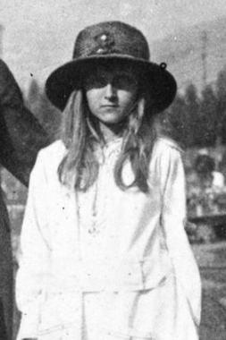 Huguette Clark at Columbia Gardens, Butte, Montana